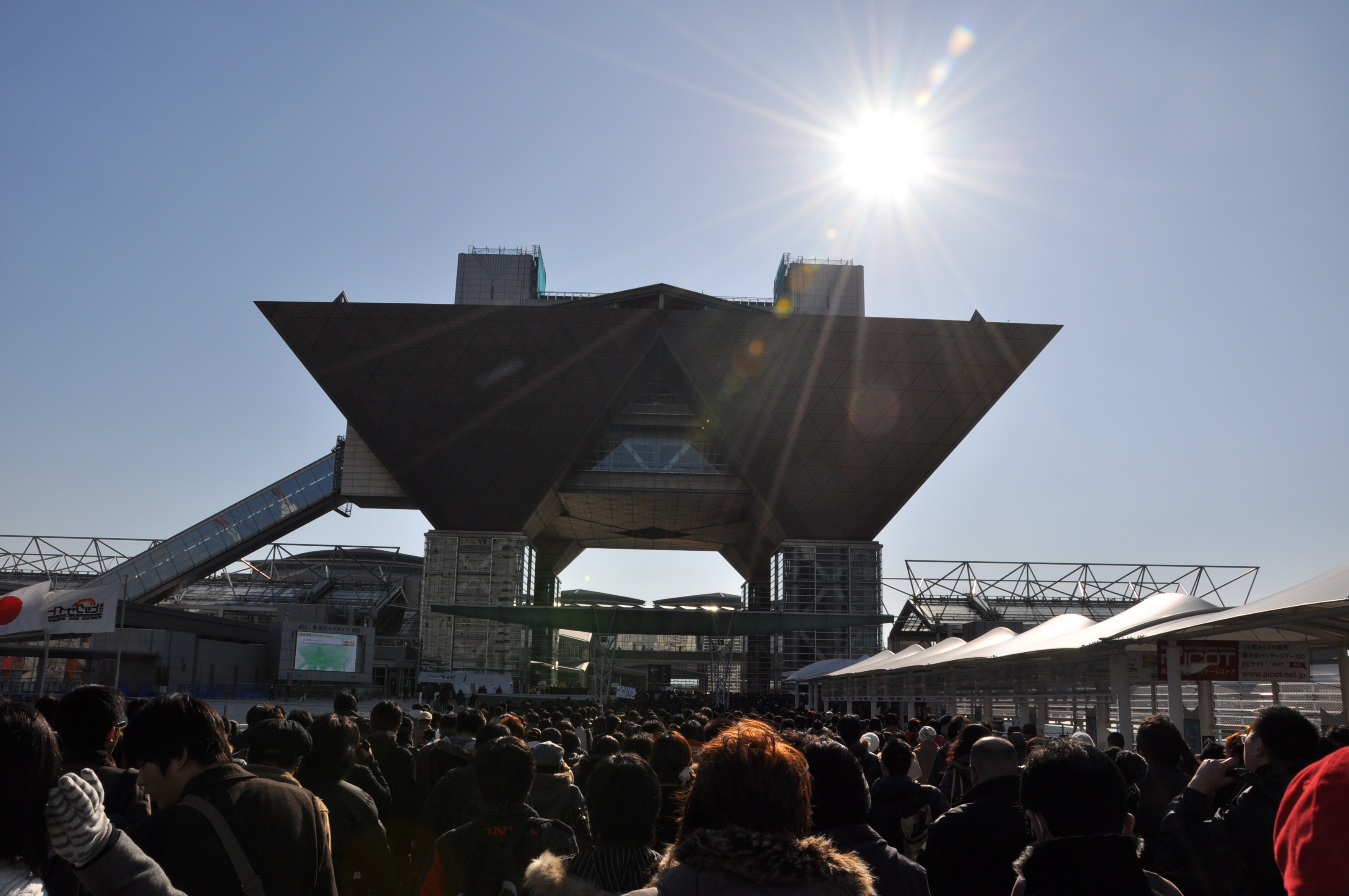 People waiting early in the morning outside of Tokyo Big Sight in Ariake, before the venue is opened for the third day of Comiket 77.